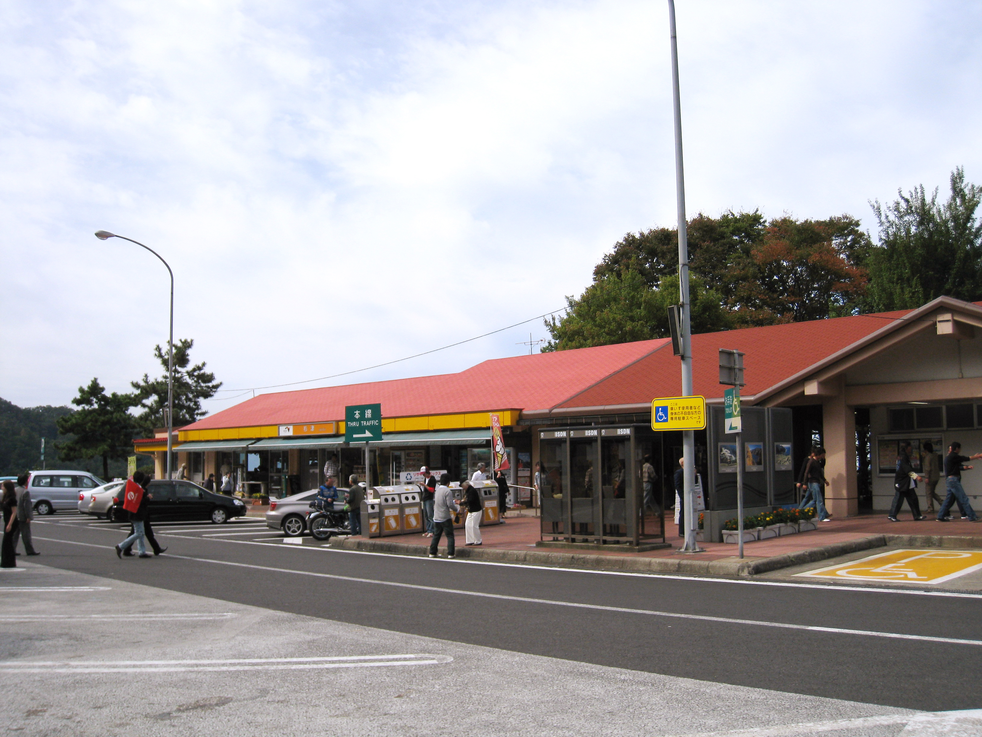 Suizu Parking Area in Tsuruga City, Fukui Prefecture, Japan